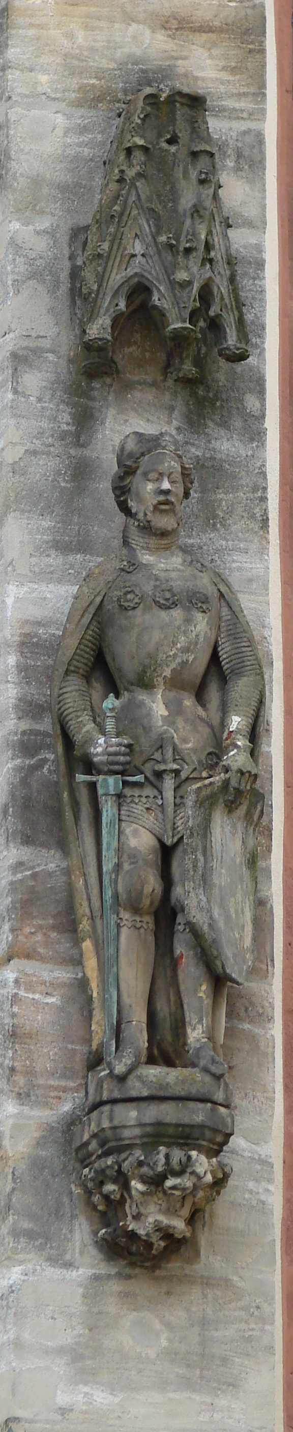 statue of Charles IV, Holy Roman Emperor, at St. Mary Church in Sulzbach-Rosenberg